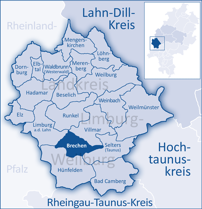 The map shows a district in the area of Limburg-Weilburg